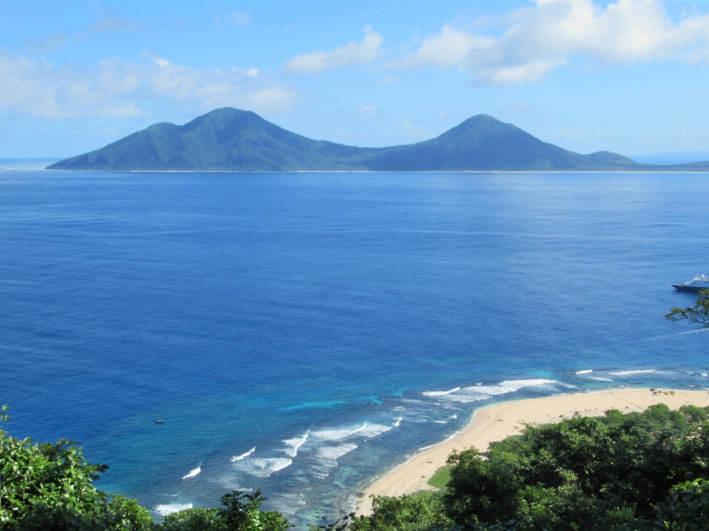 A view of the East part of Emae as seen from the southeast. Shot at Makura.